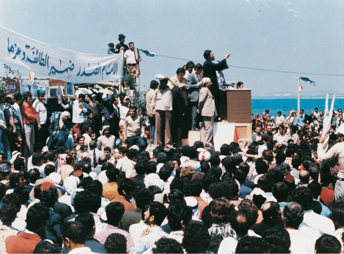 The speech of Imam Musa Sadr in the people of Tyre, Lebanon